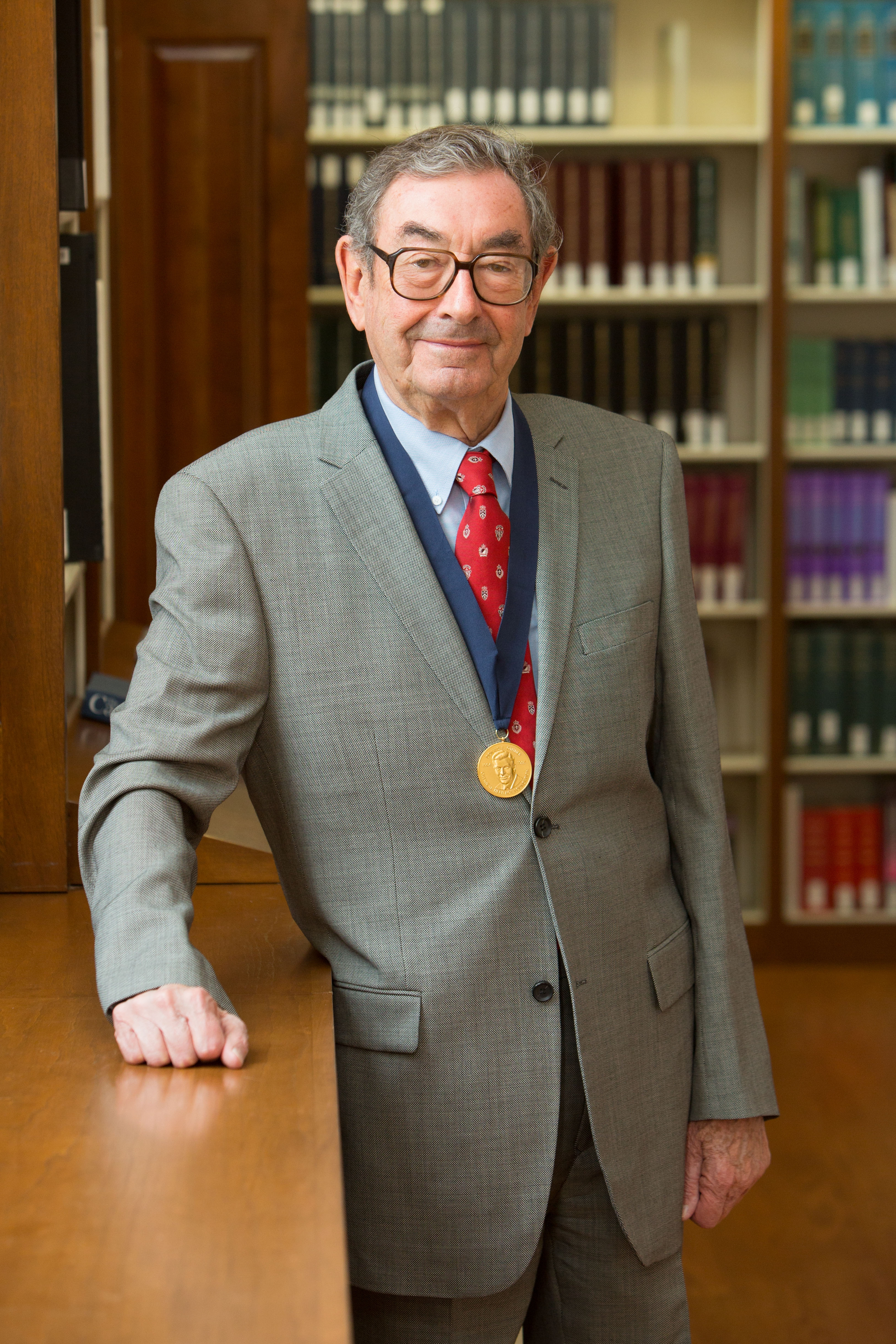 Photograph of chemist Harry B. Gray, with the Othmer Gold Medal, awarded 4 April 2013, at the Chemical Heritage Foundation.